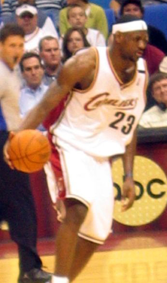 Image of LeBron James